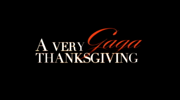 Screenshot from A Very Gaga Thanksgiving television special